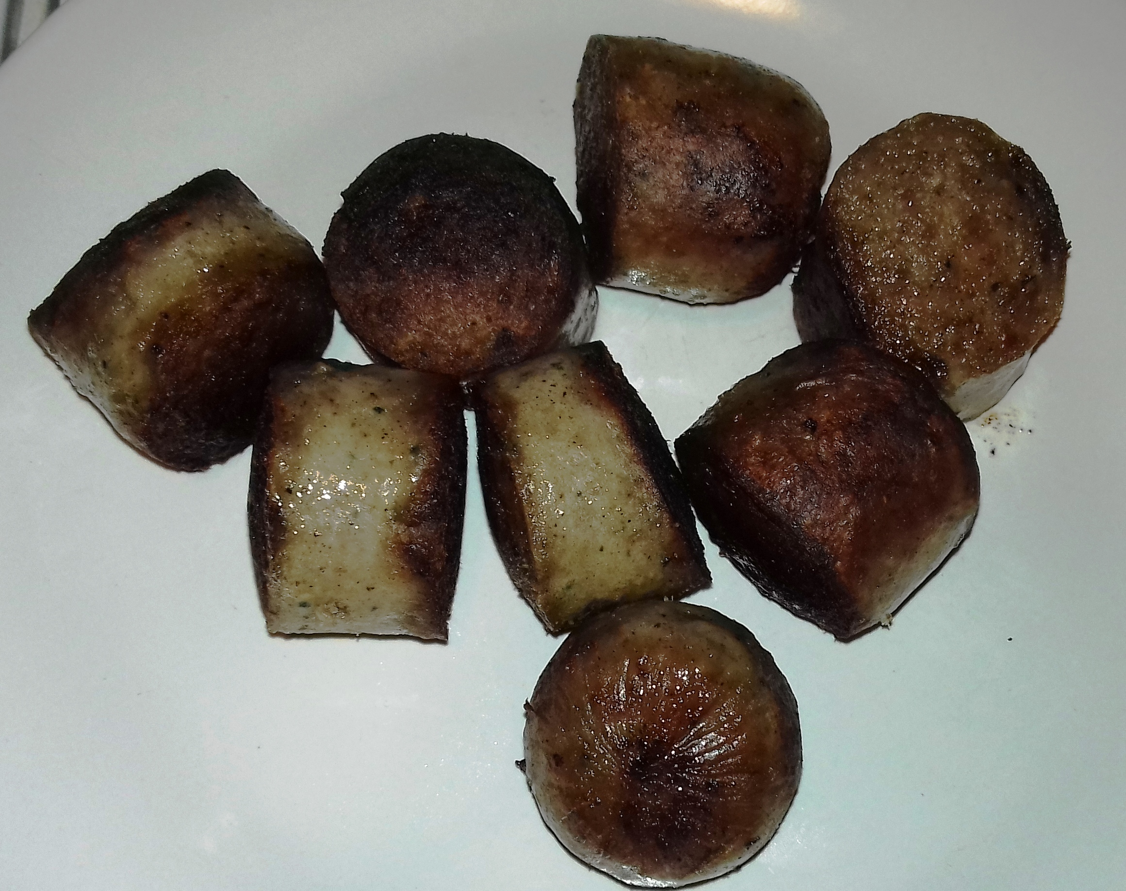 Fried hogs pudding. A traditional Cornish food.